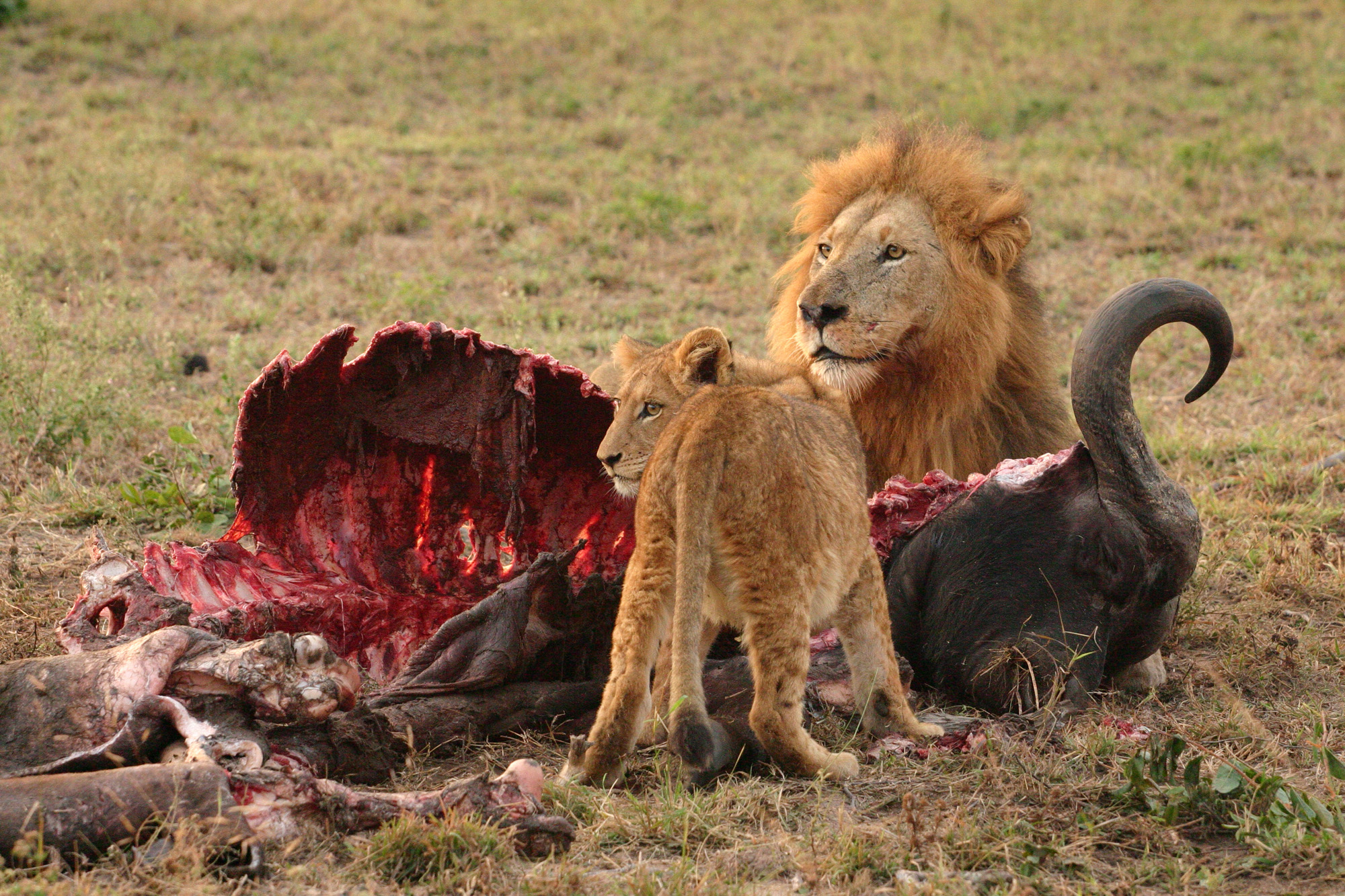 Male Lion (Panthera leo) and Cub eating a Cape Buffalo in Northern Sabi Sand, South Africa.